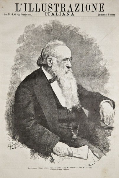 Cover of "Illustrazione Italiana" dedicated to Italian Prime Minister Agostino Depretis (1813-1887).